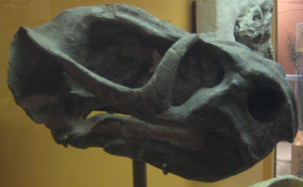 Oudenodon, Dicynodon or Ptychognathus latirostris, 250 - 200 million years ago Late Permian